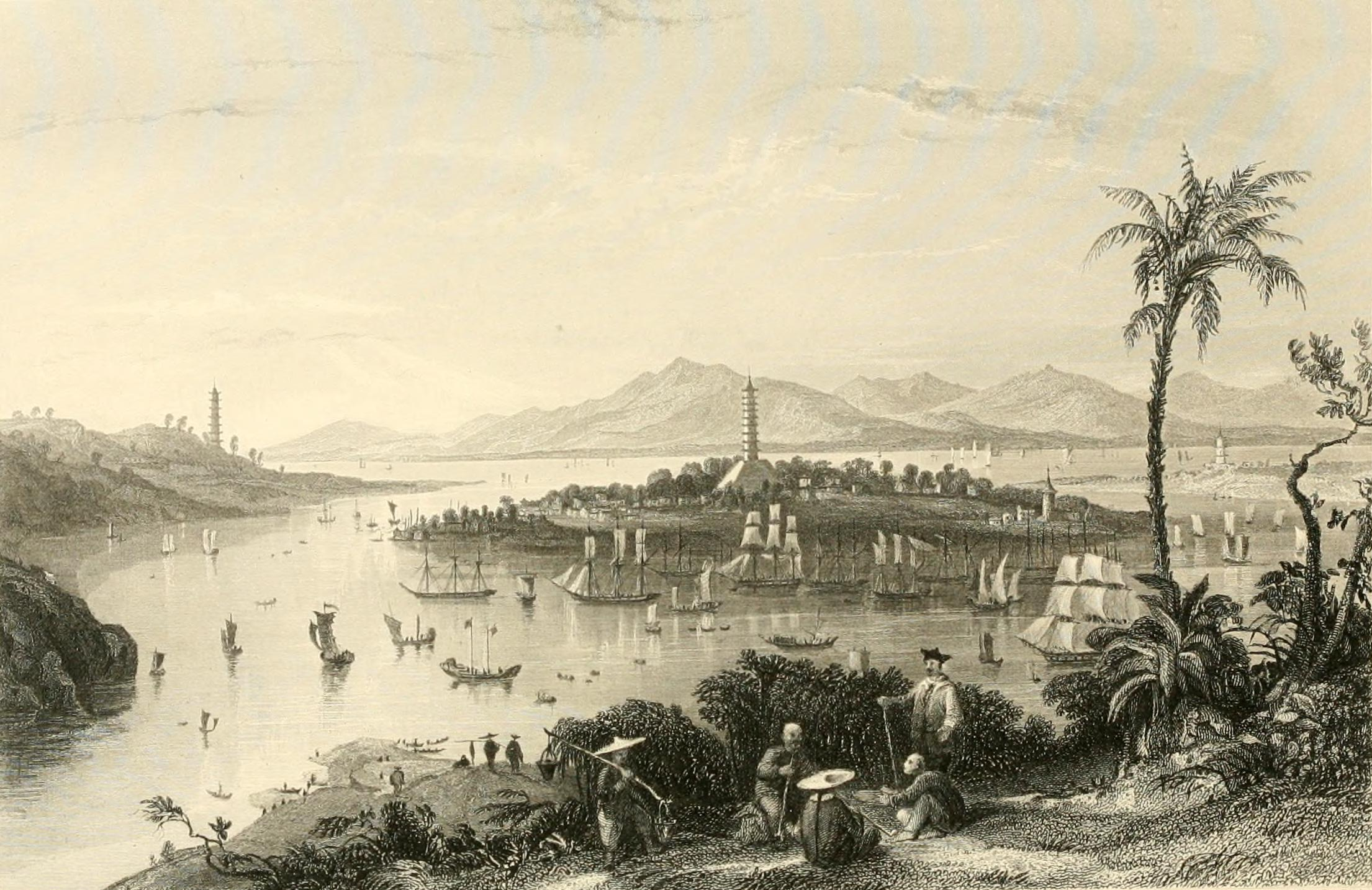 Whampoa, from Dane's Island The Whampoa anchorage and Changzhou Island (Dane's Island) in the Pearl River in Guangzhou (Canton).